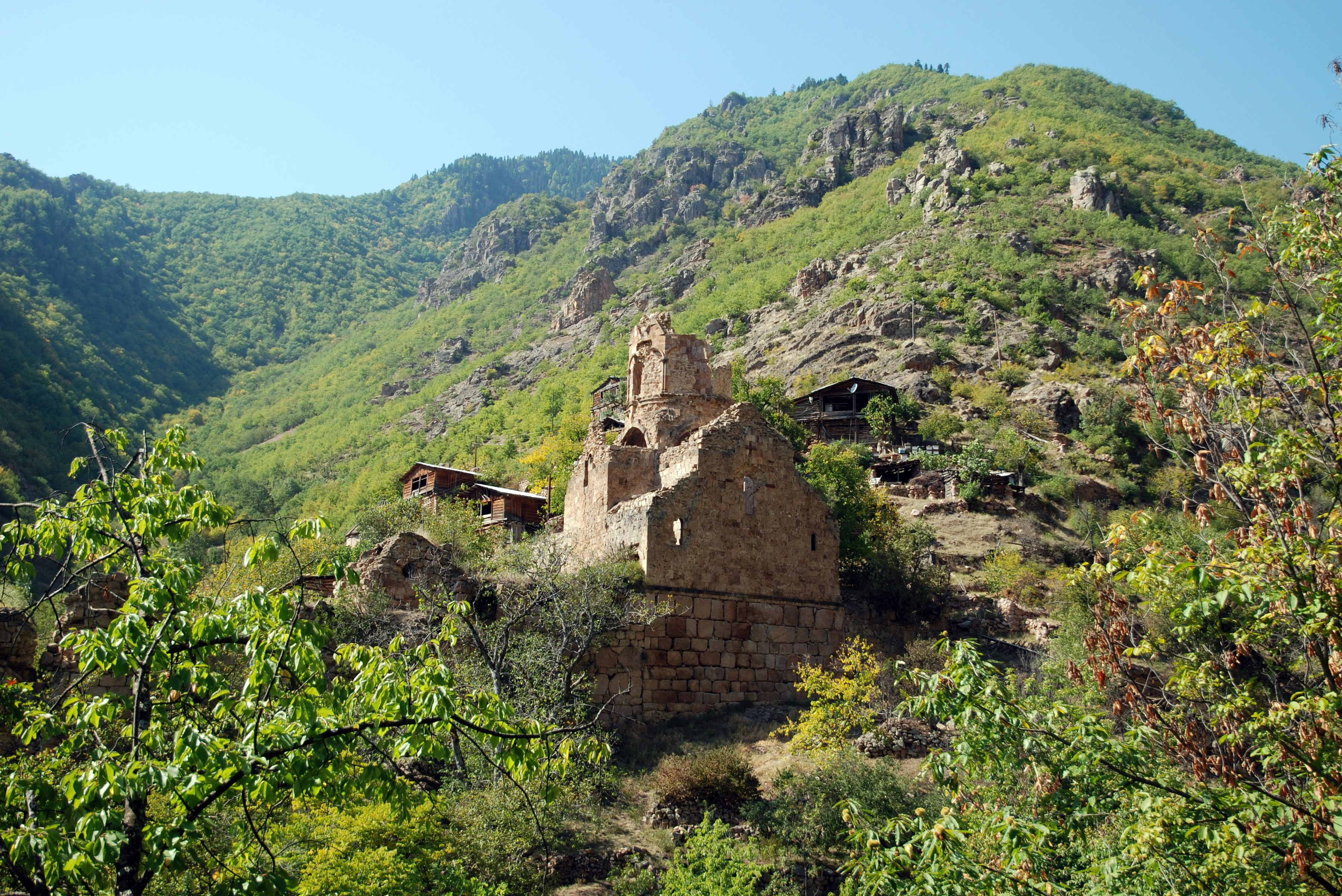 Porta or Khandzta, Georgian monastery, Artvin province, from east